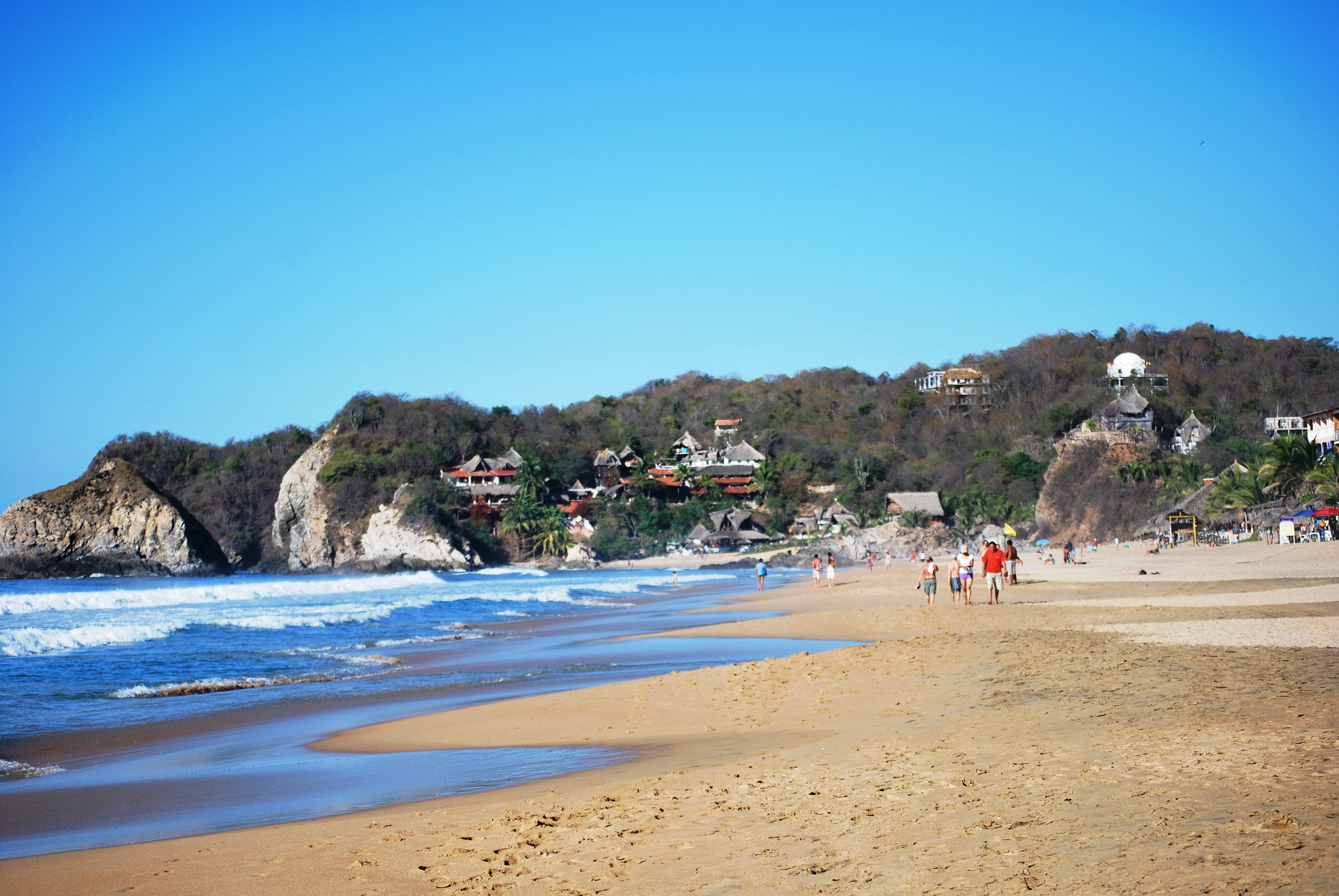 View of Zipolite beach looking west in Oaxaca, Mexico